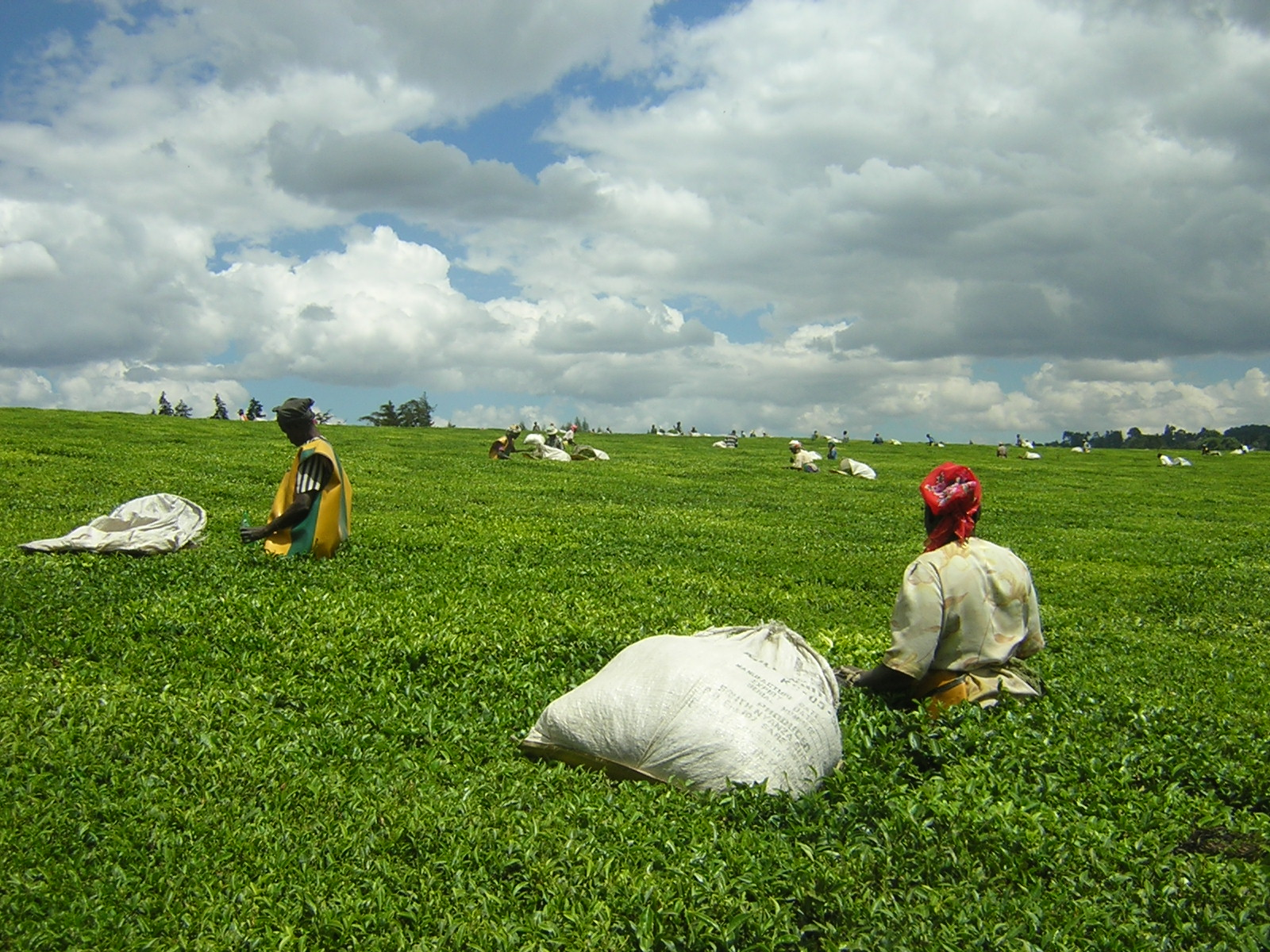 Teapickers near Kericho, Kenya.